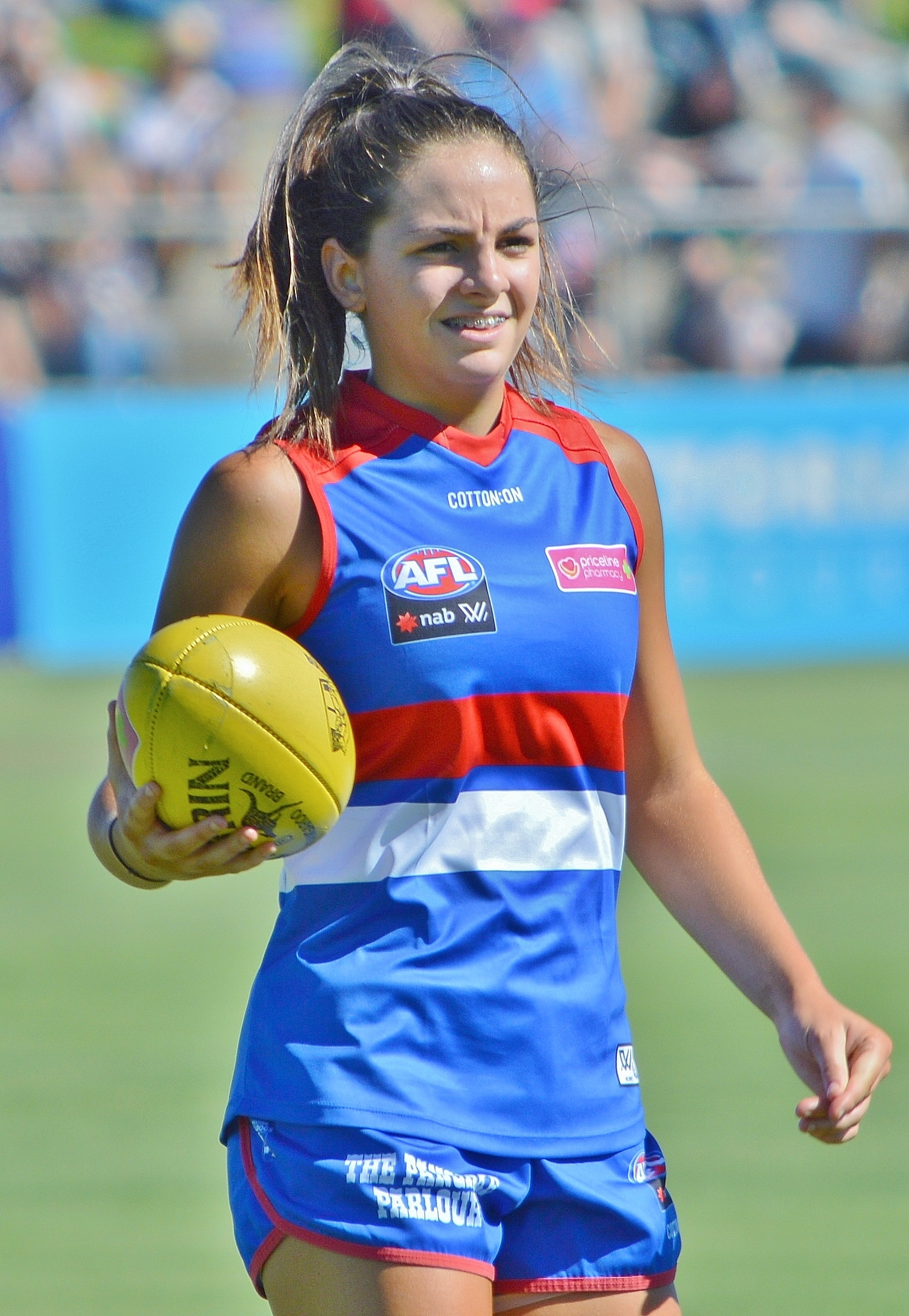 Monique Conti during the round 1 2018, AFL Women's match between the Western Bulldogs and Fremantle.